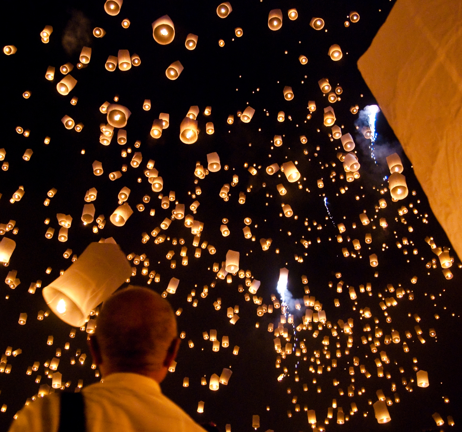 A big festival, where thousands of Khom Loi (sky lanterns) are floated in to the air during a Buddhist ceremony, is held a few days ahead of the actual Loy Krathong/Yi Peng festival in San Sai district near Maejo University, some 20 km north of Chiang Mai, Thailand. Apparently, this festival will be held on a smaller scale on the 24th of October, 2009, again in San Sai municipality.